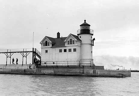 Waukegan Harbor Light, Illinois, after additional structures